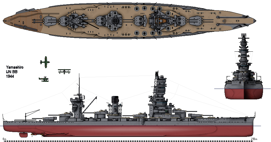 3 view drawing of IJN Battleship Yamashiro, reflecting the look of 1944. Created to image differences to IJN BB Fuso. Check Fuso1944.png . author: Alexpl